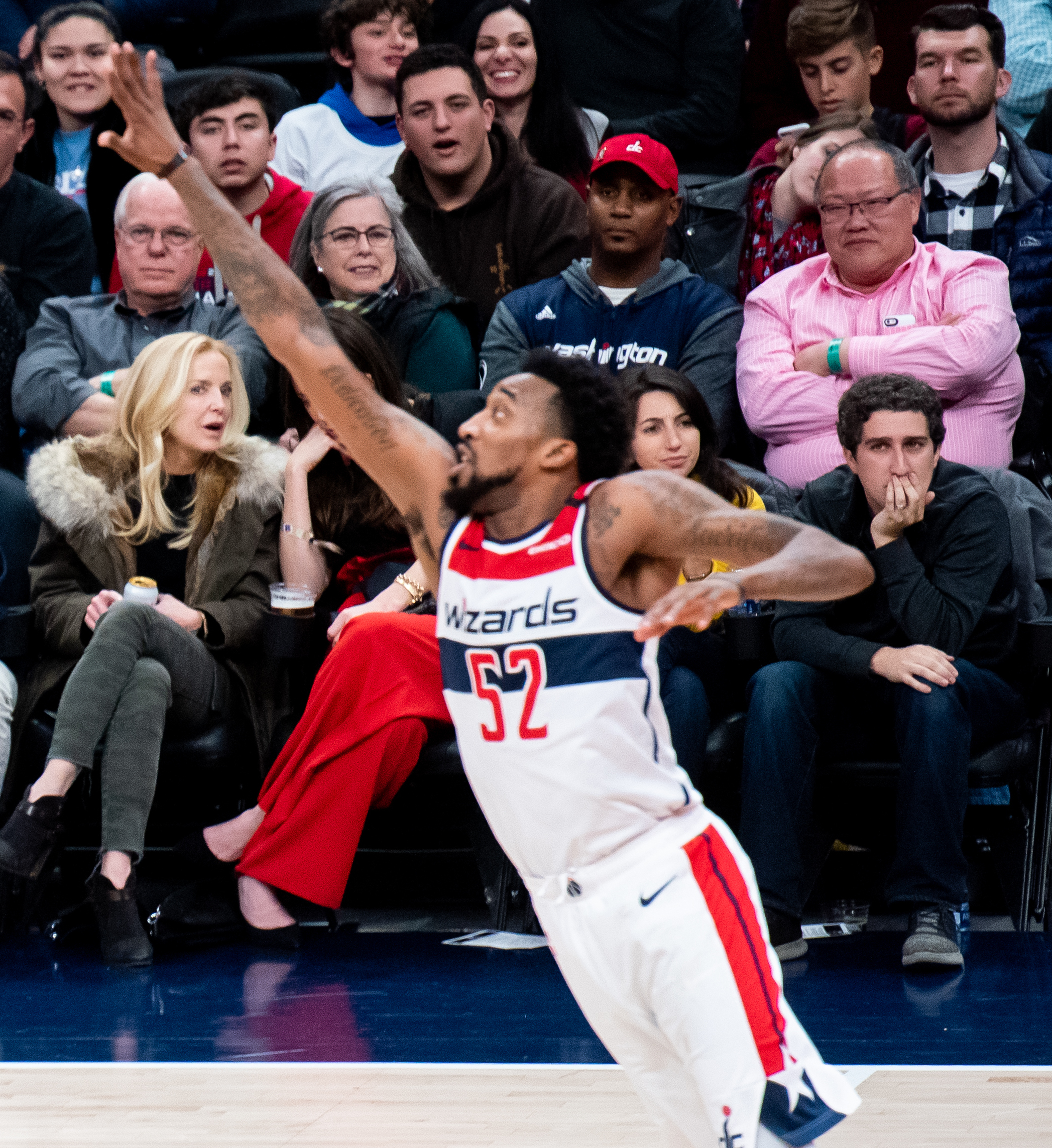 Kevin Huerter and Jordan McRae